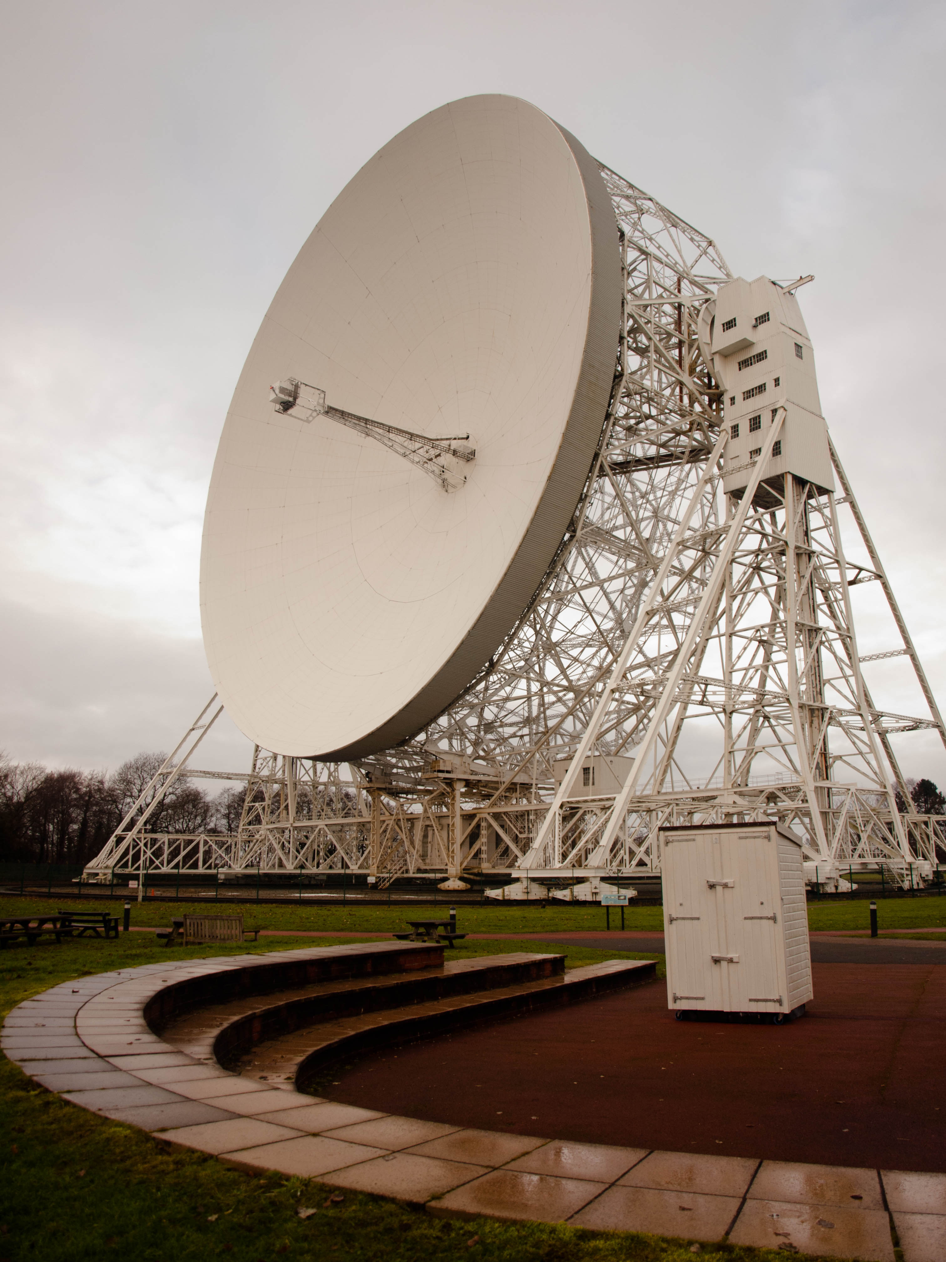 Lovell telescope at Jodrell Bank in Cheshire. Operated by the University of Manchester.